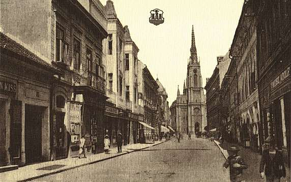 Reprinted postcard of Novi Sad